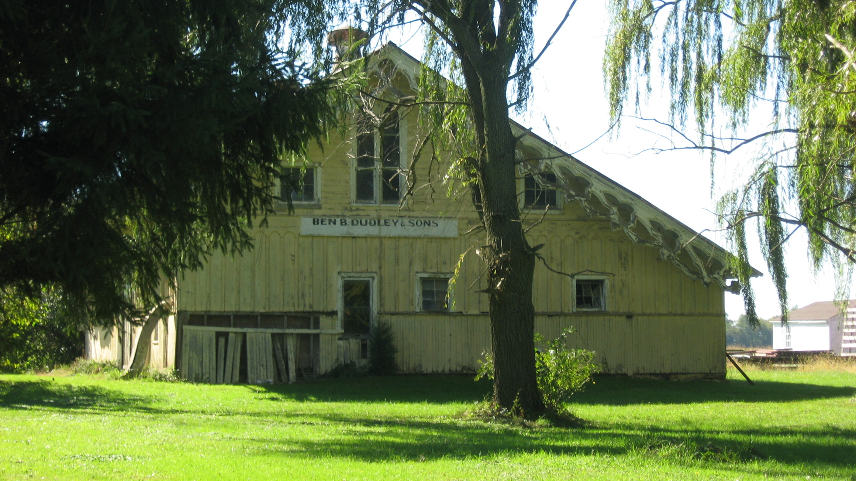 Front of the Reamer Barn, located on the southern side of State Route 511 west of Oberlin in New Russia Township, Lorain County, Ohio, United States. Designed by an architect and built in 1897 to house dairy cows, it is listed on the National Register of Historic Places.